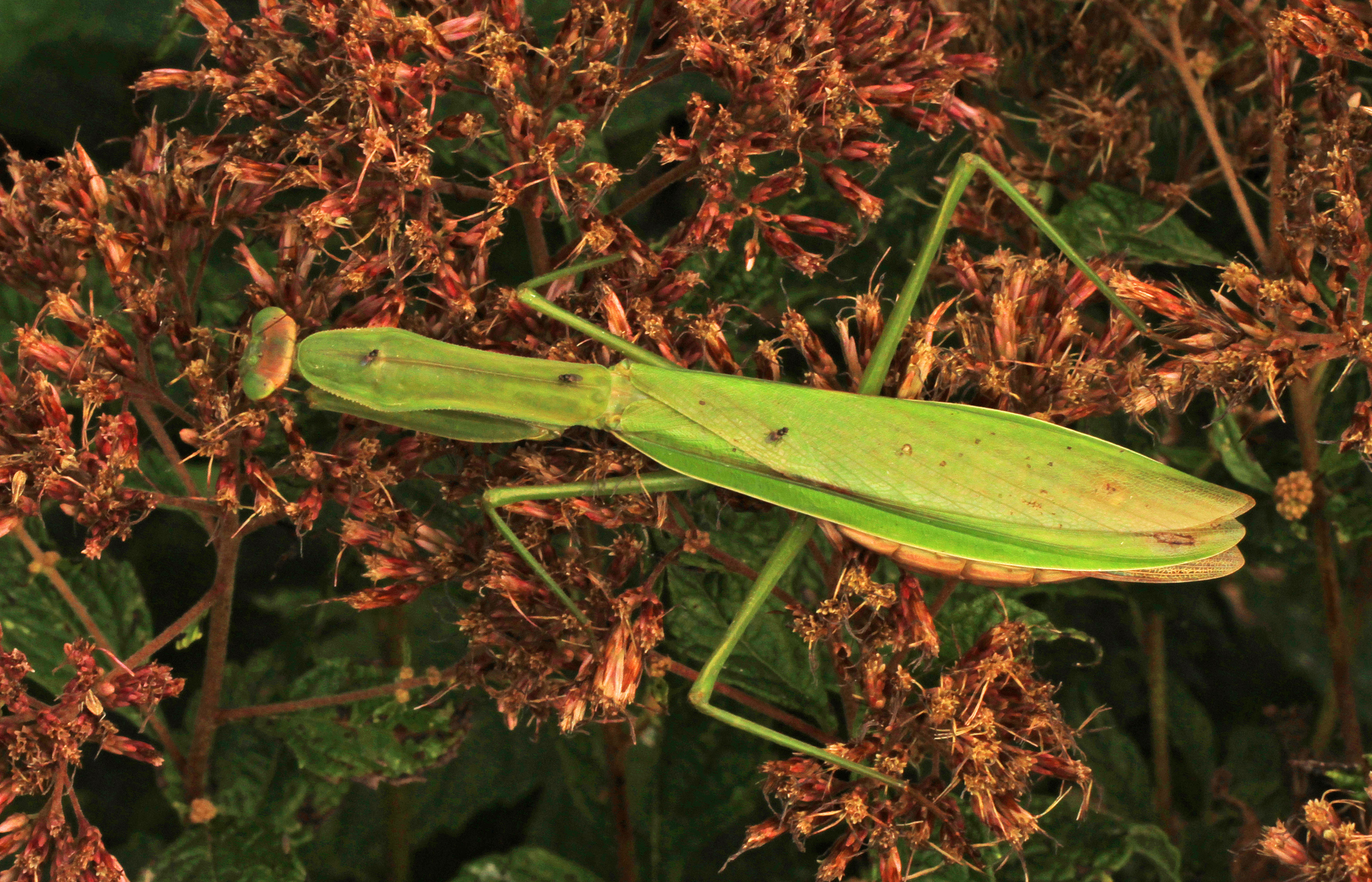 Chinese Praying Mantis - Tenodera sinensis, Jones Preserve, Washington, Virginia